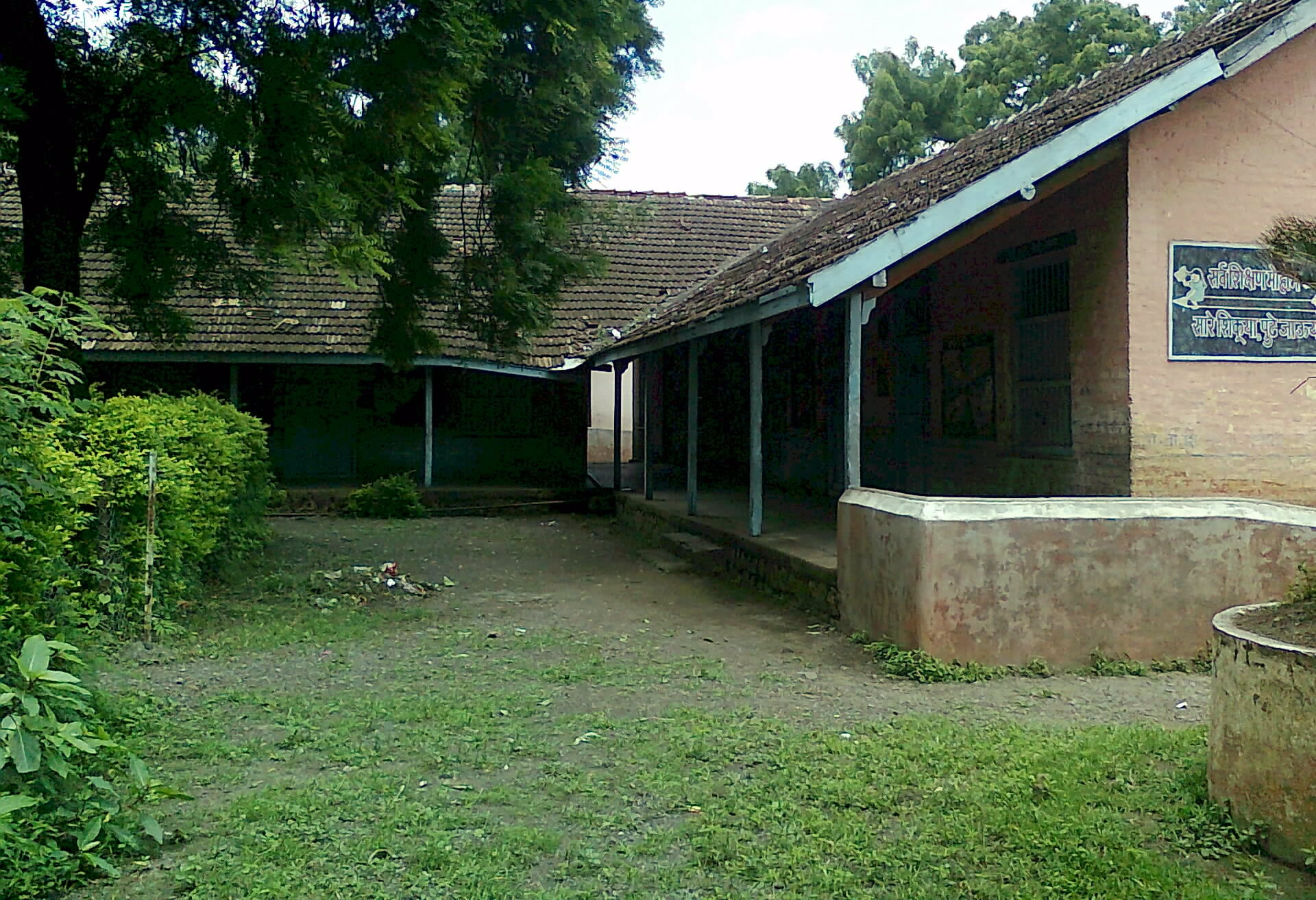 ZP Boys' Primary School in Chinawal village of Maharashtra, India